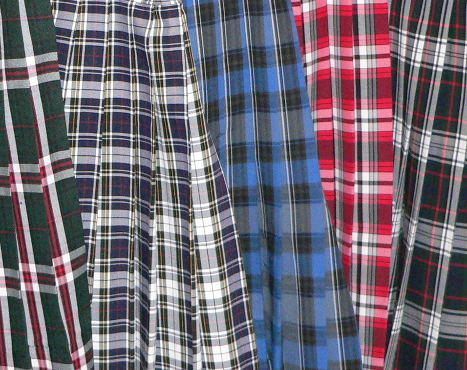 Photo description Several examples Catholic school uniform skirts showing the plaid patterns. All of these examples were manufactured by the Dennis Uniform Company based out of Portland OR. All skirts, skorts, jumpers and shifts are made in America at the Dennis Uniform factory in Portland. The patterns of most or all such uniforms have names. For example, the green ground skirt (leftmost in the photo) has a pattern which is called a "Sequoia" by the manufacturer, next is "MacBeth", followed by "Plaid OO" and the last is called Lloyd. Note that these names apparently do not have any relation to the similarly named patterns of Scottish kilts which are registered with the Scottish Tartans Society. For example, the MacBeth plaid skirt is quite unlike any of the three examples of MacBeth tartan patterns, both as to the color scheme and the thread count. Photo is copyright © 2005 by James F. Perry.